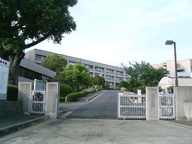 Fukuoka Women's University